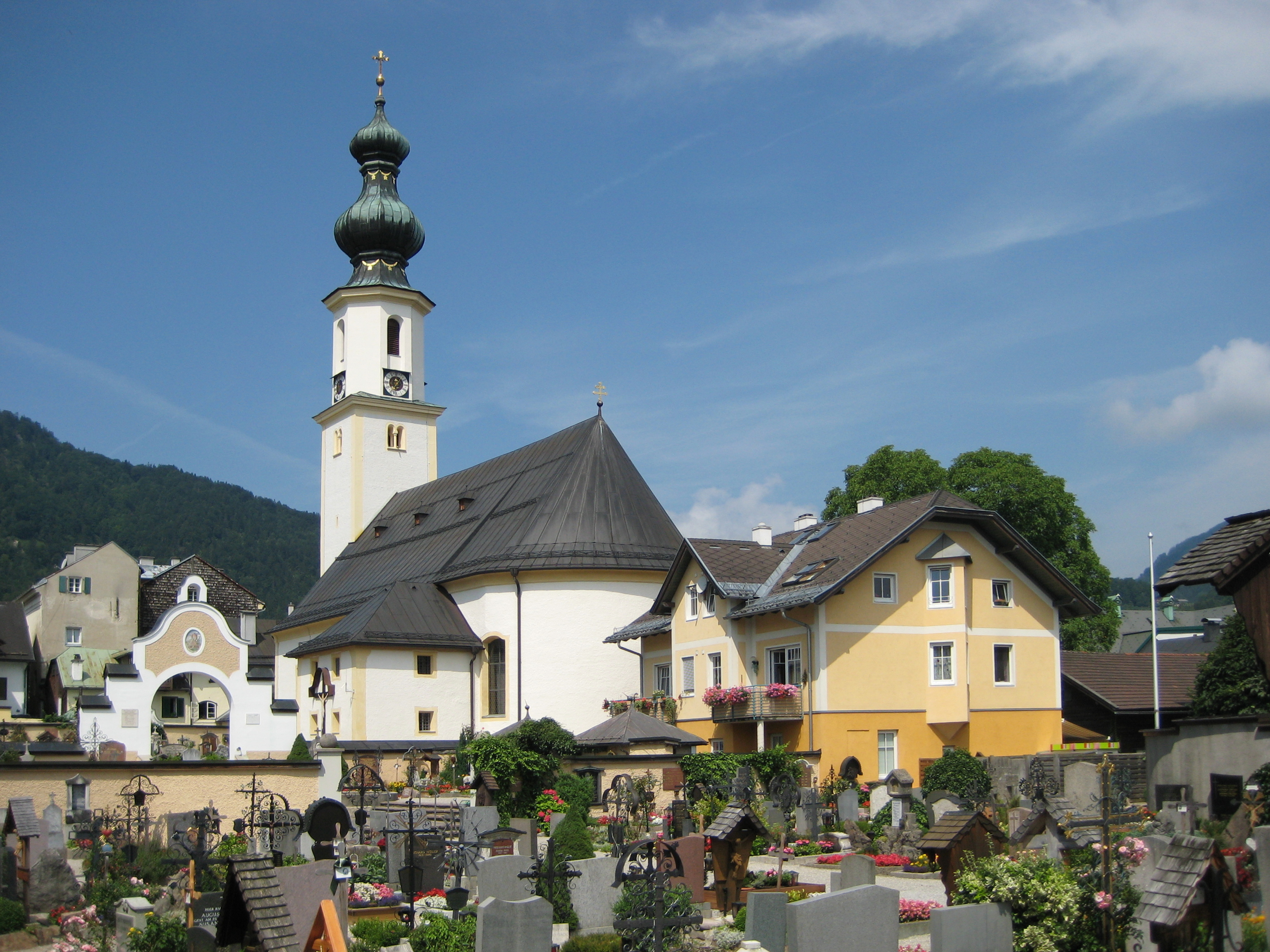 St. Gilgen